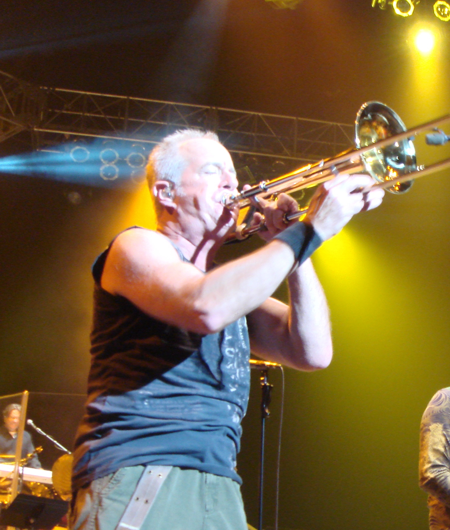 James Pankow, American trombonist for the band Chicago during a performance at the Dodge Theatre in Phoenix, AZ